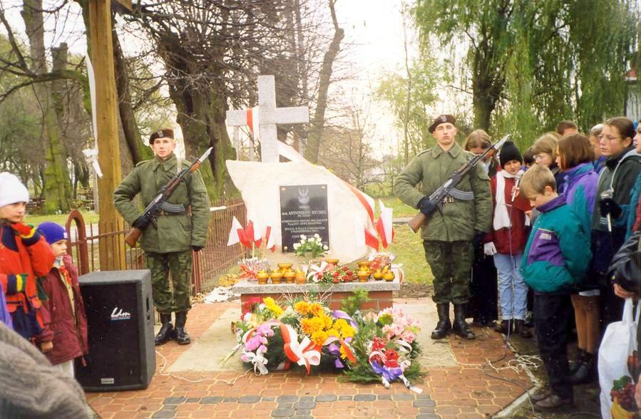 Opening ceremony of monuments of Polish partizan Antoni Rychel in Sahryń, Poland